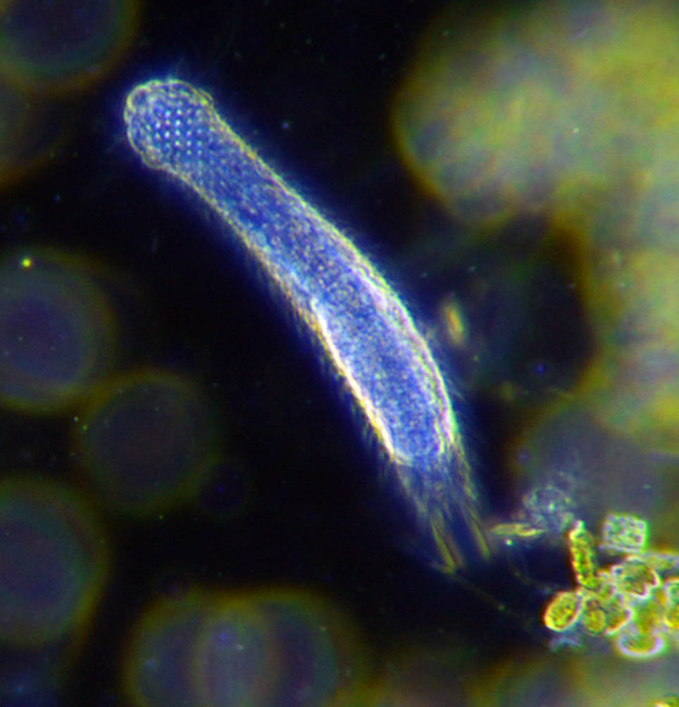 Darkfield photograph of a gastrotrich. Taken through a 10x ocular and 10x objective with a Pentax *ist DL at 1/180th with an understage flash.